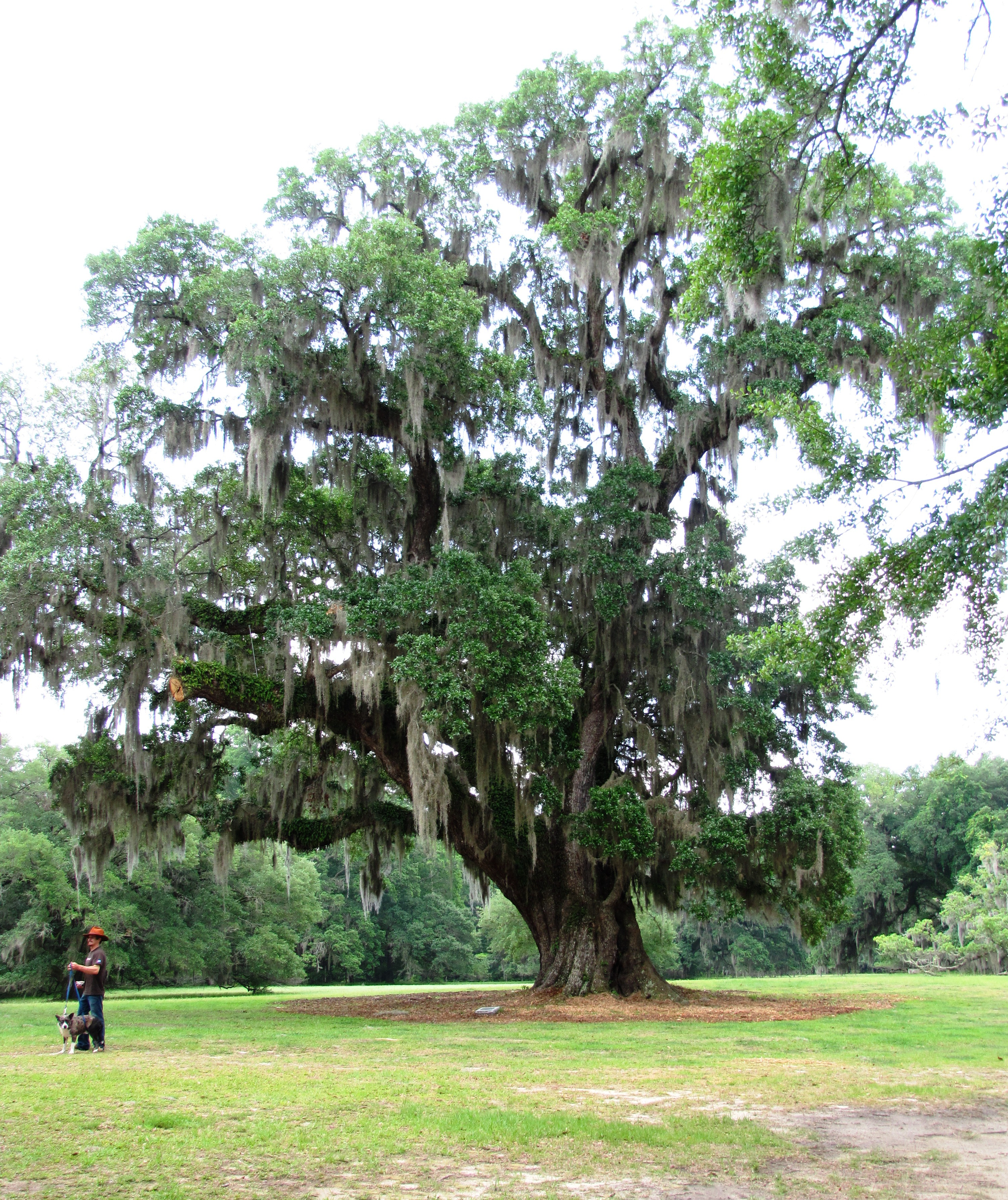 The George Washington Oak, a live oak at the Hampton Plantation State Historic Site in Charleston County, South Carolina, USA. While entertaining President George Washington in 1791, the plantation's owner mentioned plans to remove this tree, but Washington suggested he keep it. A plaque at the base of the tree reads: GEORGE WASHINGTON OAK TREE SAVED BY HIM WHEN ON VISIT TO THIS PLANTATION IN 1791 THIS BICENTENNIAL MARKER PLACED BY REBECCA MOTTE CHAPTER, D.A.R. CHARLESTON, S.C. 1932